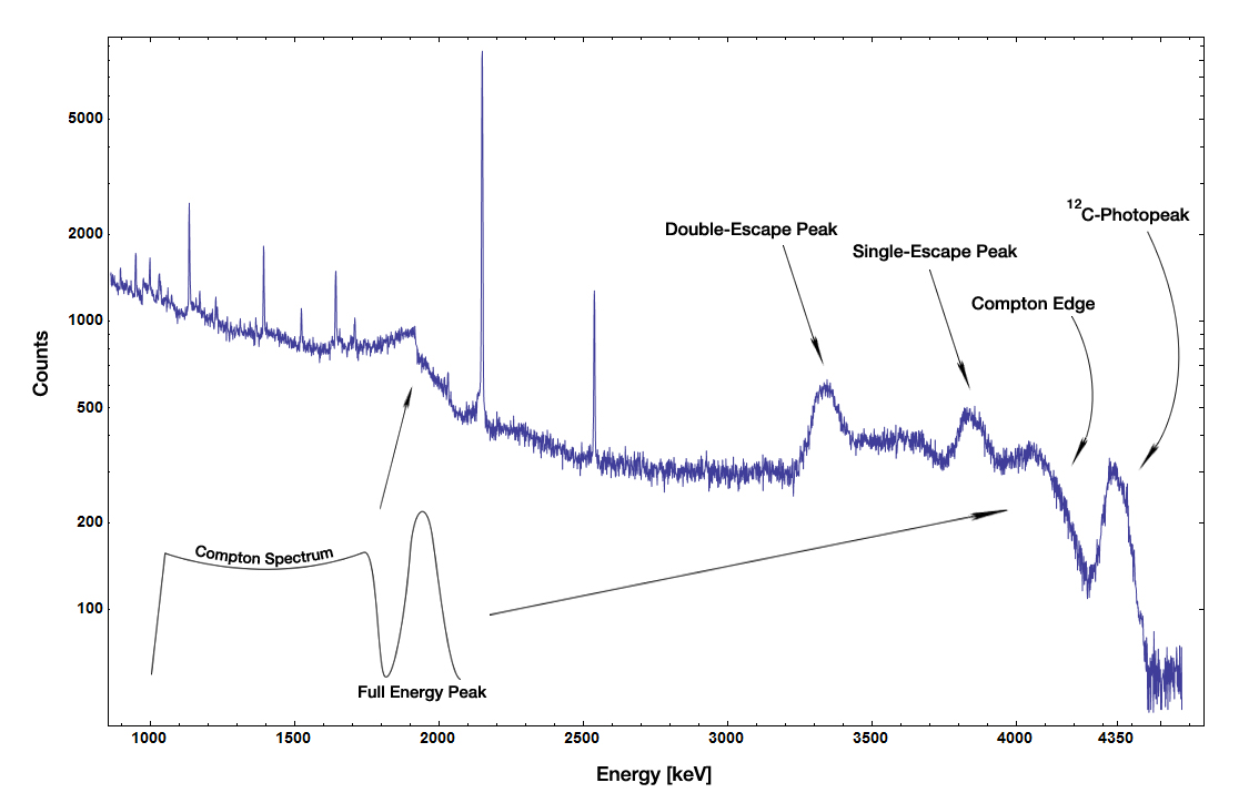 Neutron capture gamma spectrum of a radioactive Am-Be-source, measured with a scintillation detector. This plot serves as an example for both the Compton effect and the pair production (electron-positron) effect in gamma spectroscopy.